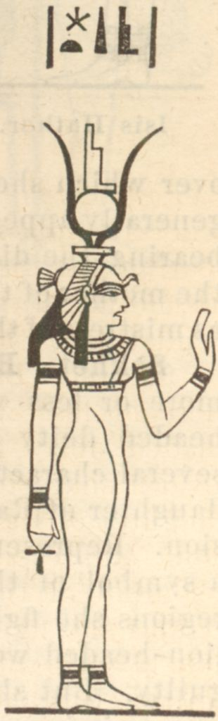 Line drawing of Egyptian goddess Isis Sothis.